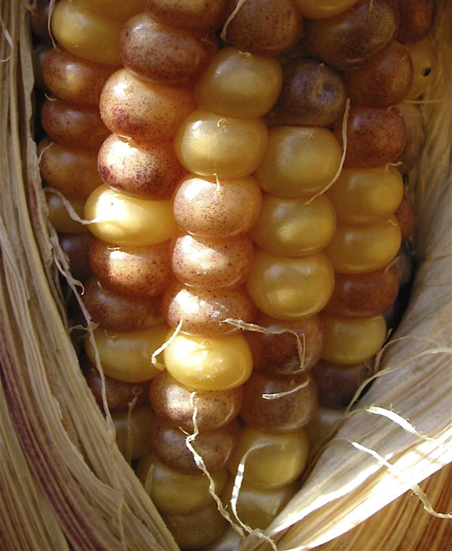 Heavy spotting on corn kernels reveals the activity of the Mutator system.